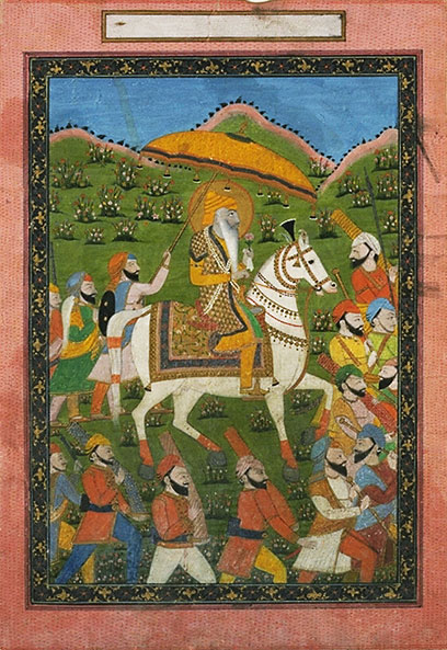 Maharaja Ranjit Singh, Victoria and Albert Museum, London, No. IS 282-1955.